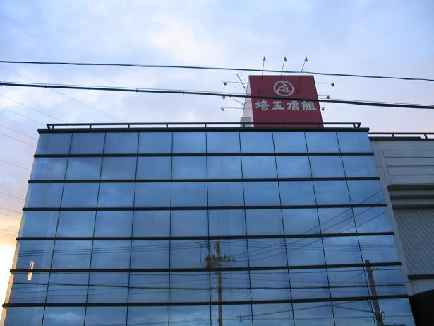 The Misato branch of Saitama Credit Union